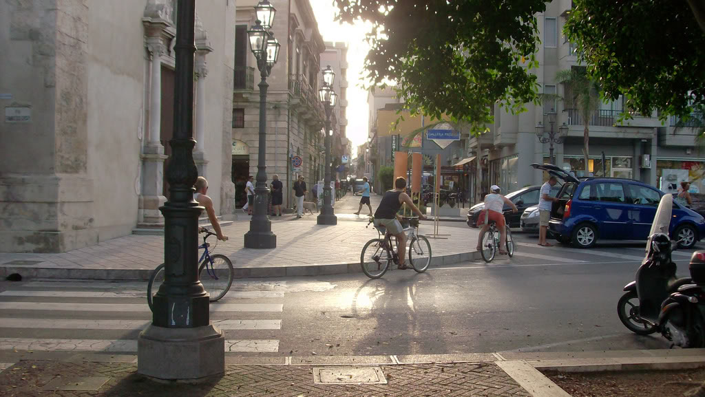 Milazzo